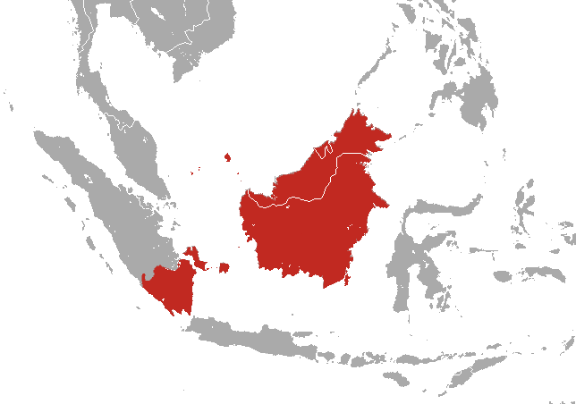 Horsfield's Tarsier (Tarsius bancanus) range